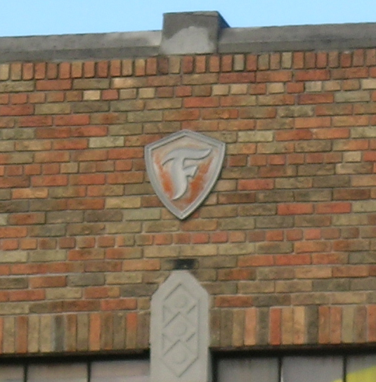 Firestone badge atop the Carney-Labradie Building in the New Amsterdam Historic District, Detroit, Michigan, United States.